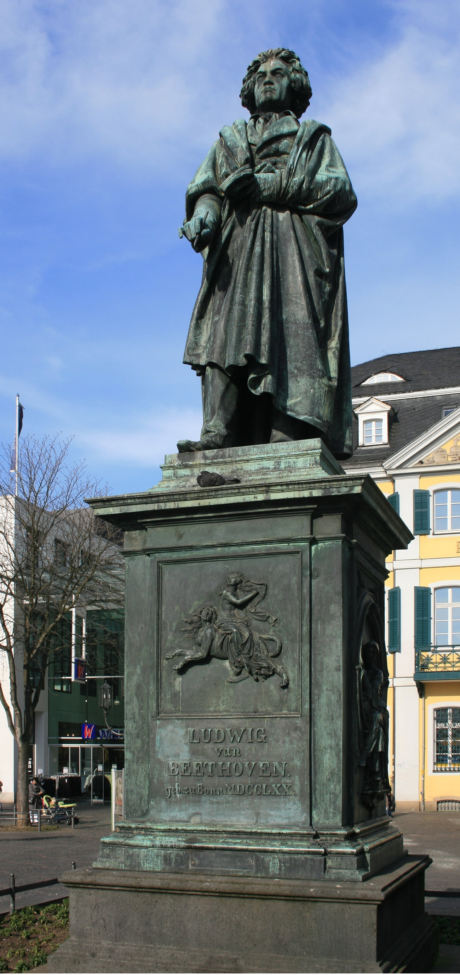 Ludwig van Beethoven statue, by Ernst Hähnel, Münsterplatz, Bonn/Germany